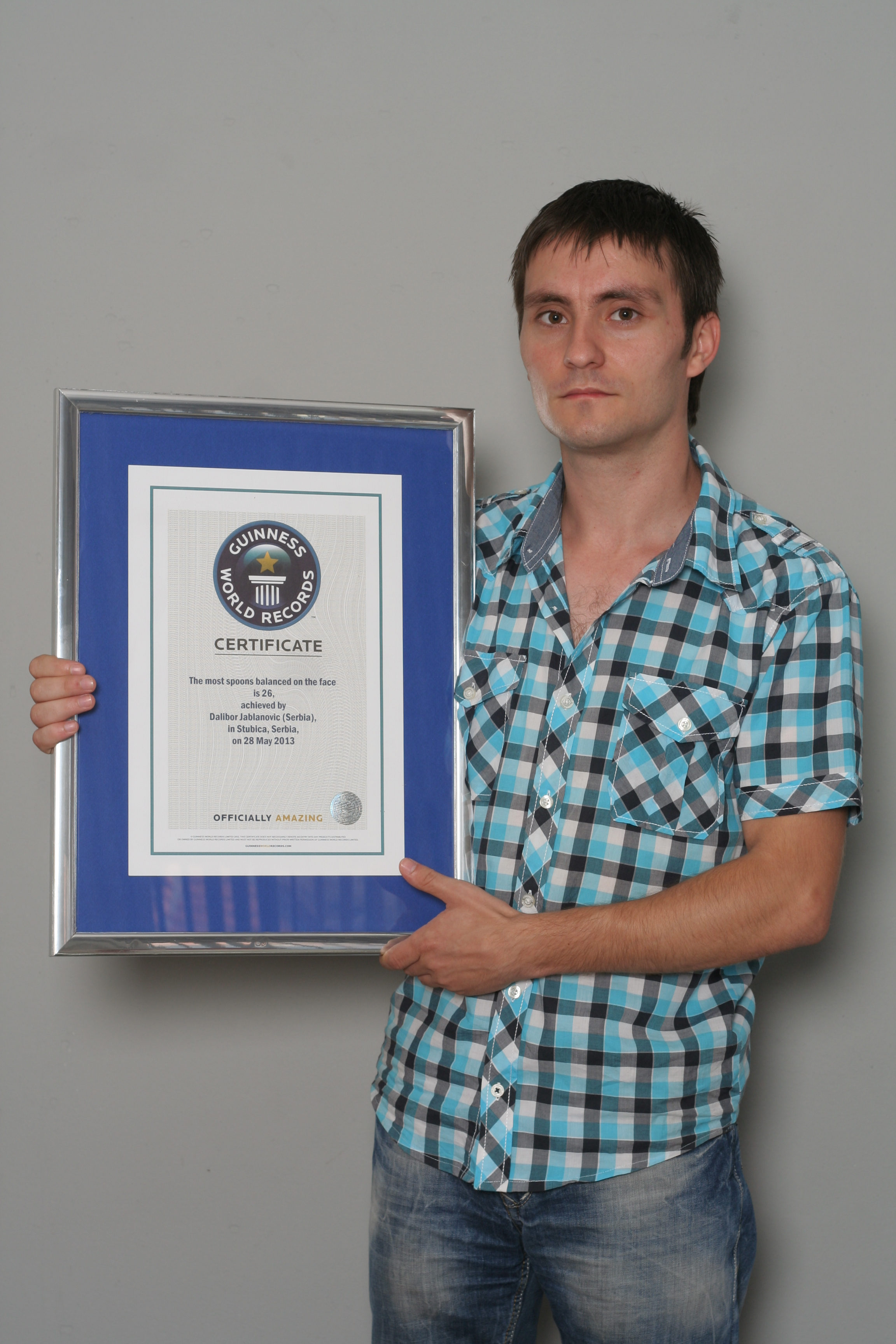 Dalibor with Guinness sertificate